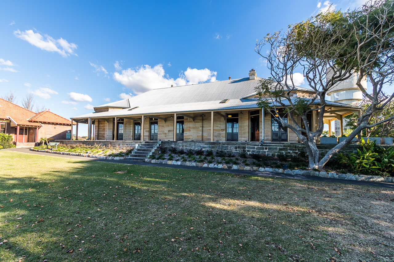 Biloela House (c.1841)